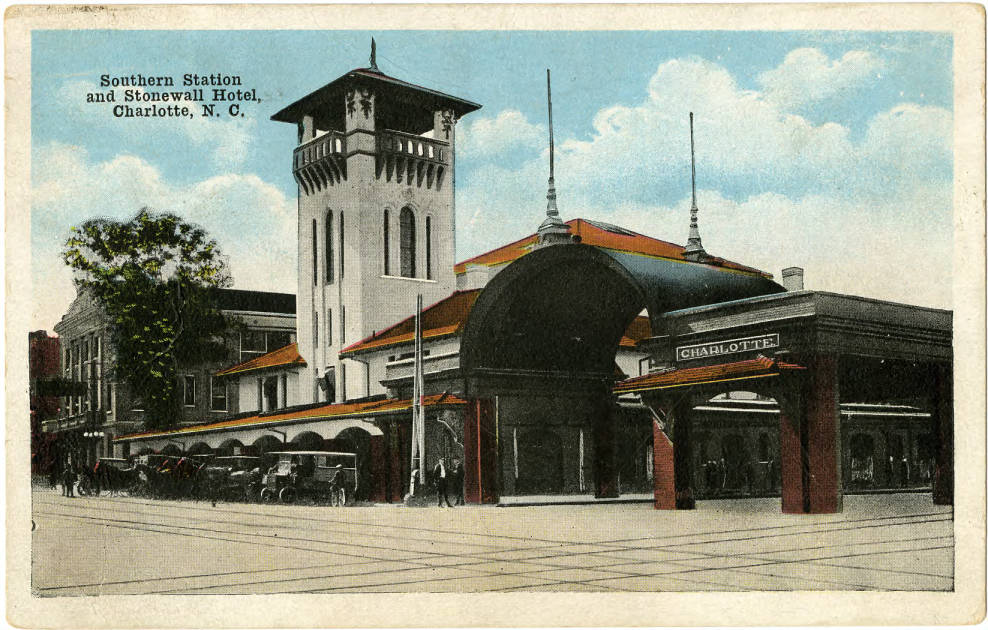 Undated postcard showing the Southern Station and adjacent Stonewall Hotel, once located along West Trade Street in Charlotte, North Carolina.